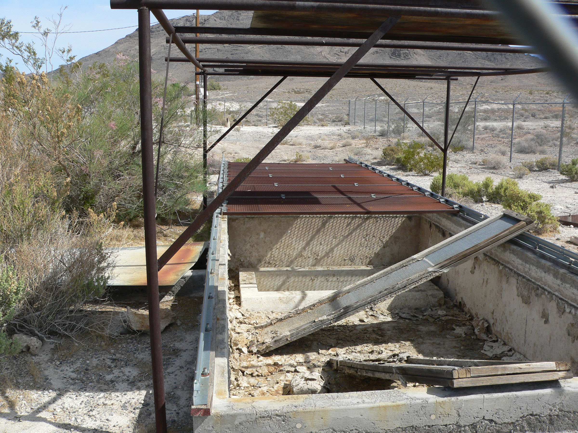 (Unused) pupfish refugium at School Springs, Ash Meadows, southern Nevada